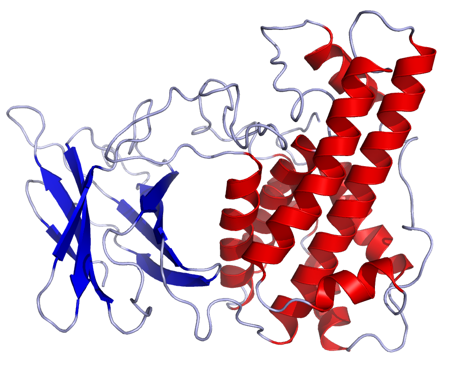 Crystal structure of C. perfringens alpha toxin as published in the Protein Data Bank (PDB: 1CA1)